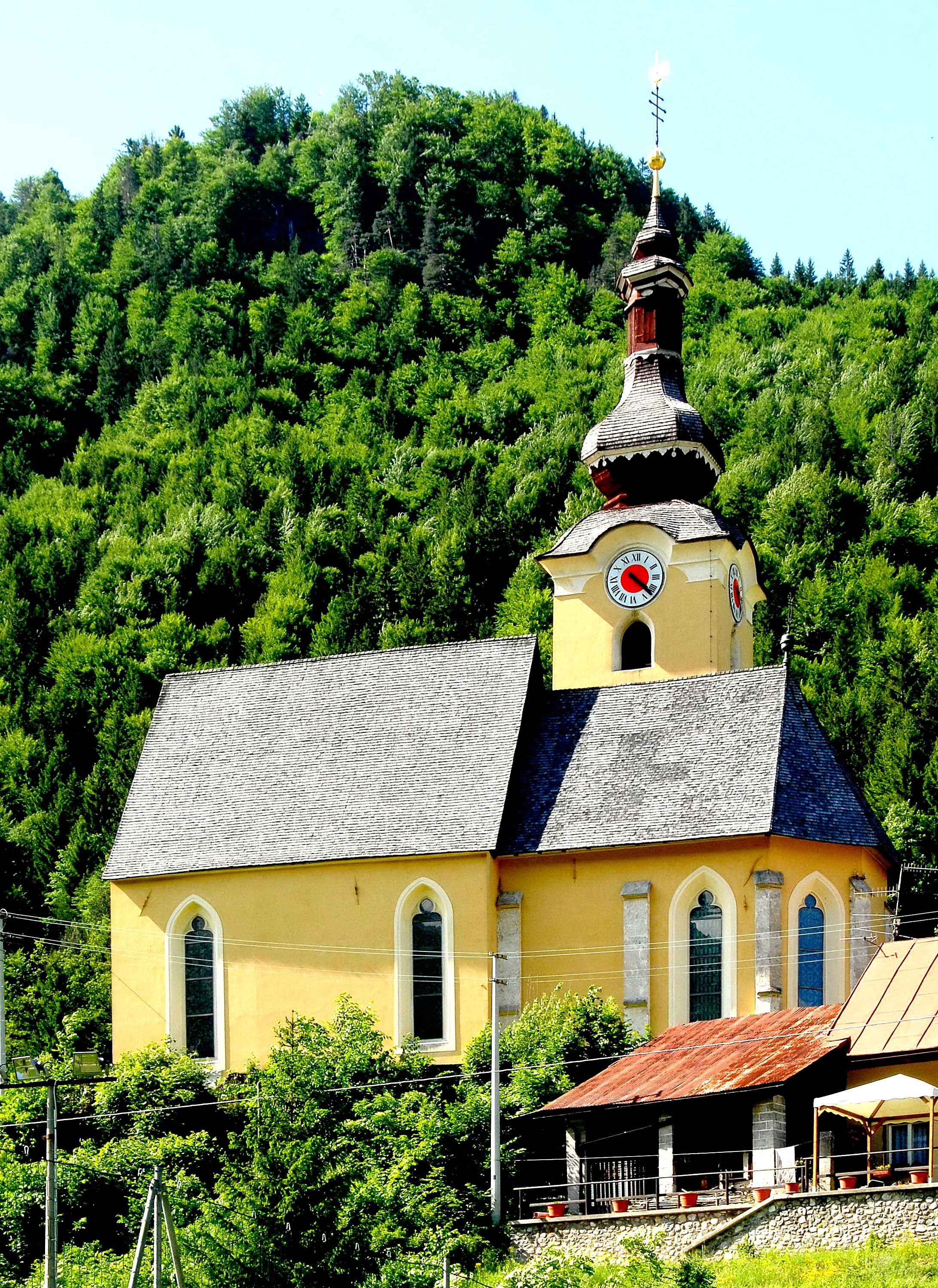 Parish church Saint Leonard at Weissenfels in Val Romana, municipality Tarvisio, province of Udine, region Friuli-Venezia Giulia / Italy / EU